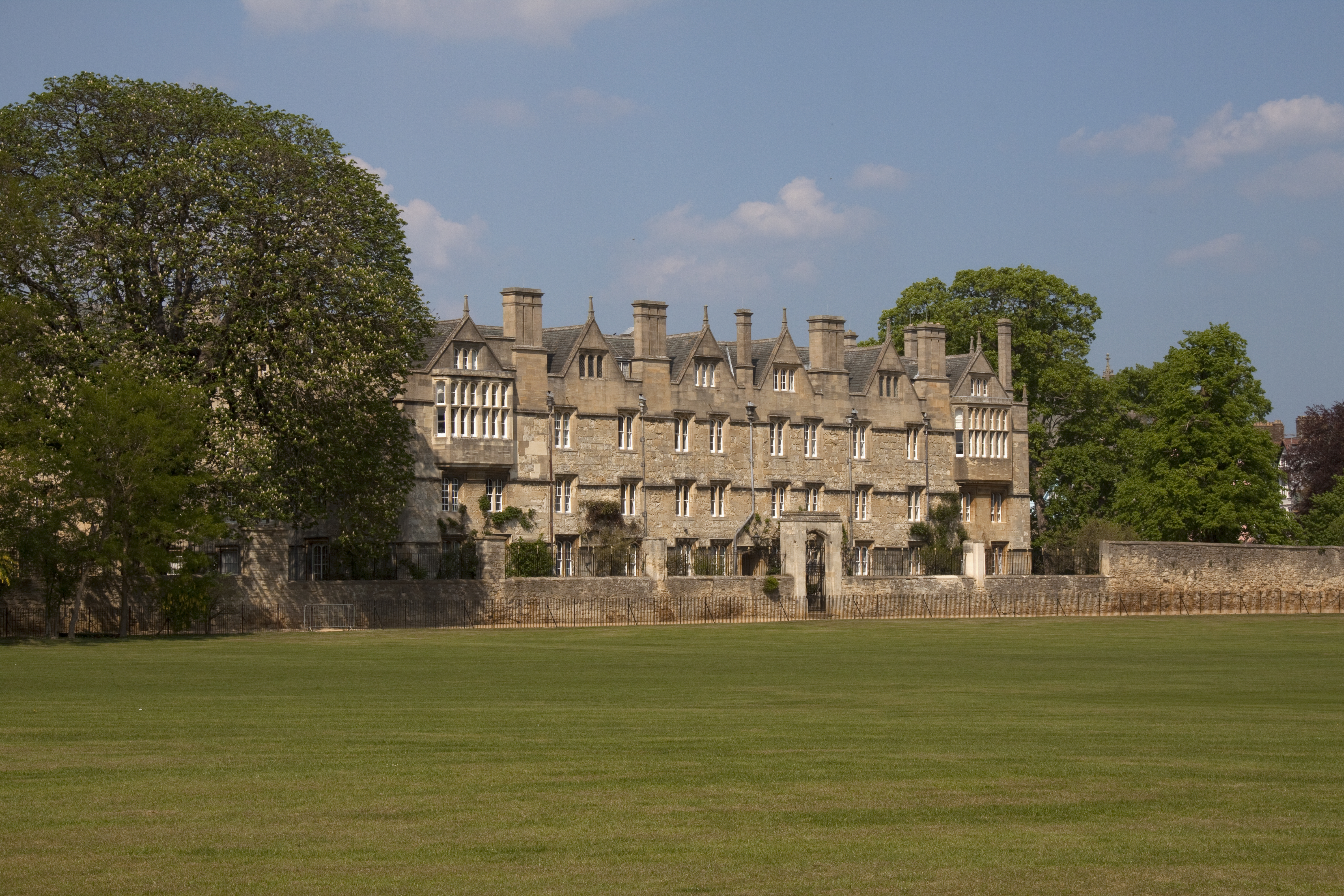 View of Merton College, Oxford across Christ Church Meadow